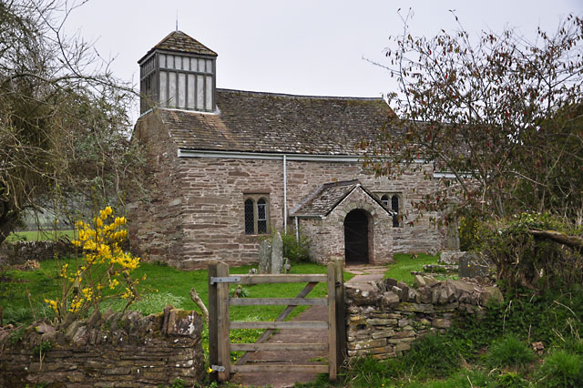 St. James' Church, Llangua Quaint church on the banks of the River Monnow.